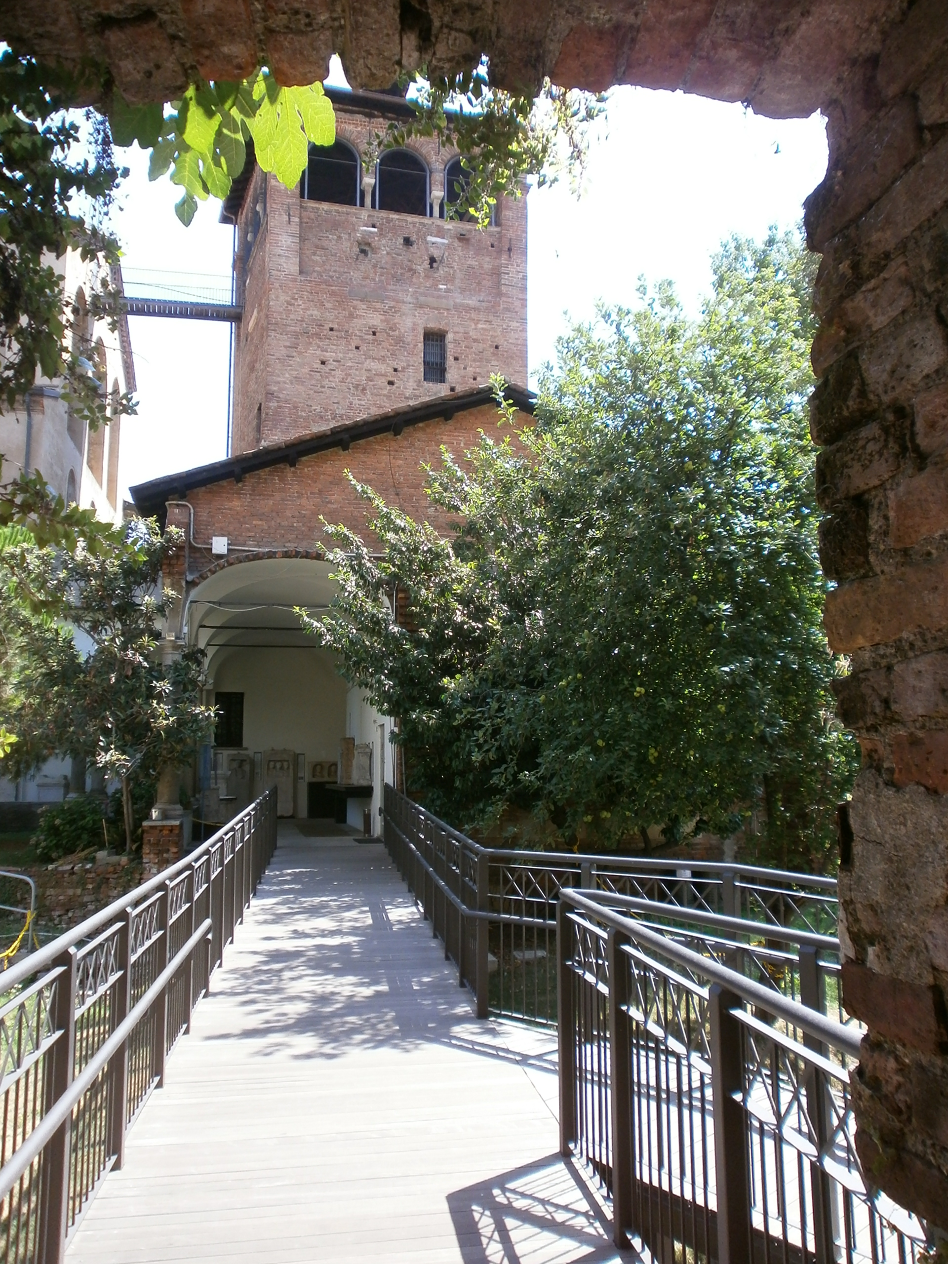 Archaeological Museum in Milan, (Italy). A glimpse upon the church tower of San Maurizio, adapted during the Middle Ages from on of the twin towers of the carceres of the Ancient Roman circus.